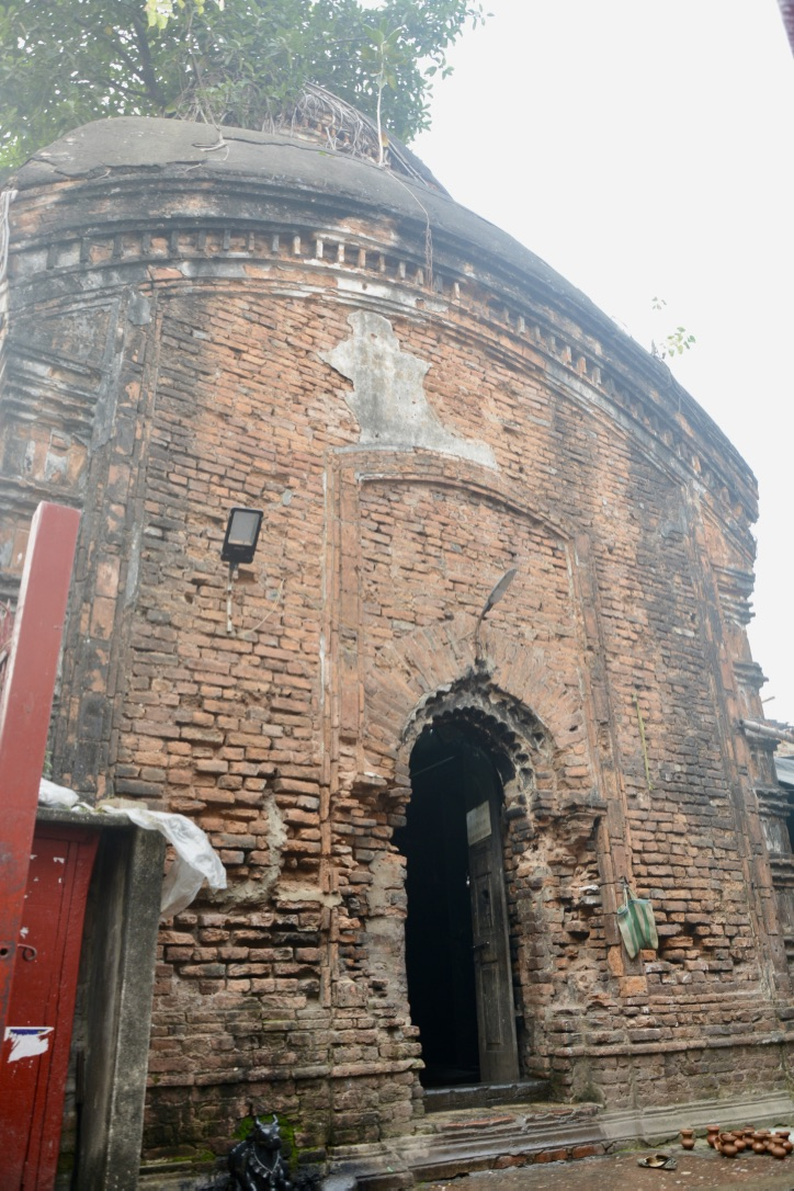 Durgeswar Shiv Mandir of Nimtala.